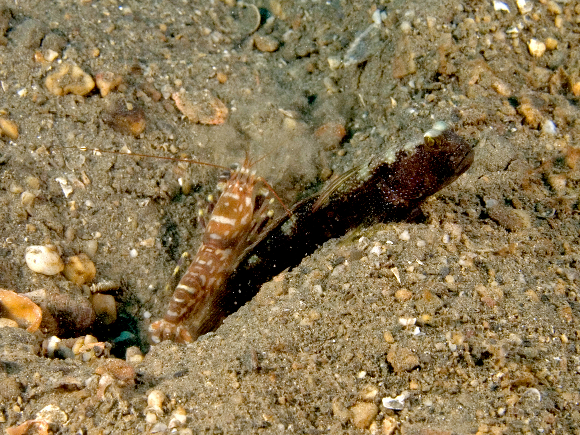 Cryptocentrus strigilliceps (Target shrimpgoby) and Alpheus rapicida (Snapping shrimp). The blind shrimp provides labor by digging and cleaning the burrow while the shrimpbgoby acts as a lookout, warning of approaching predators.